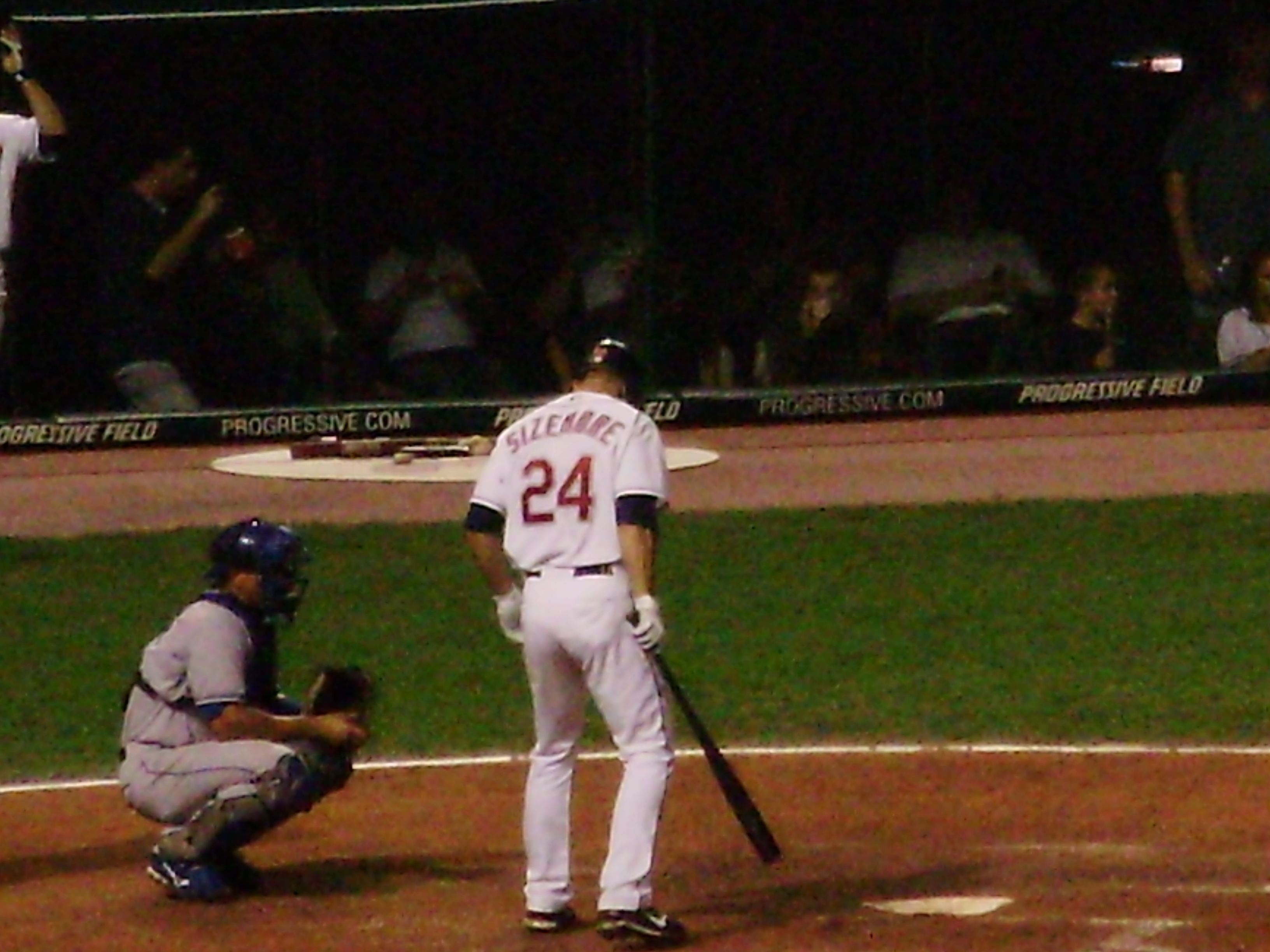 Cleveland Indians player Grady Sizemore in the batter's box.